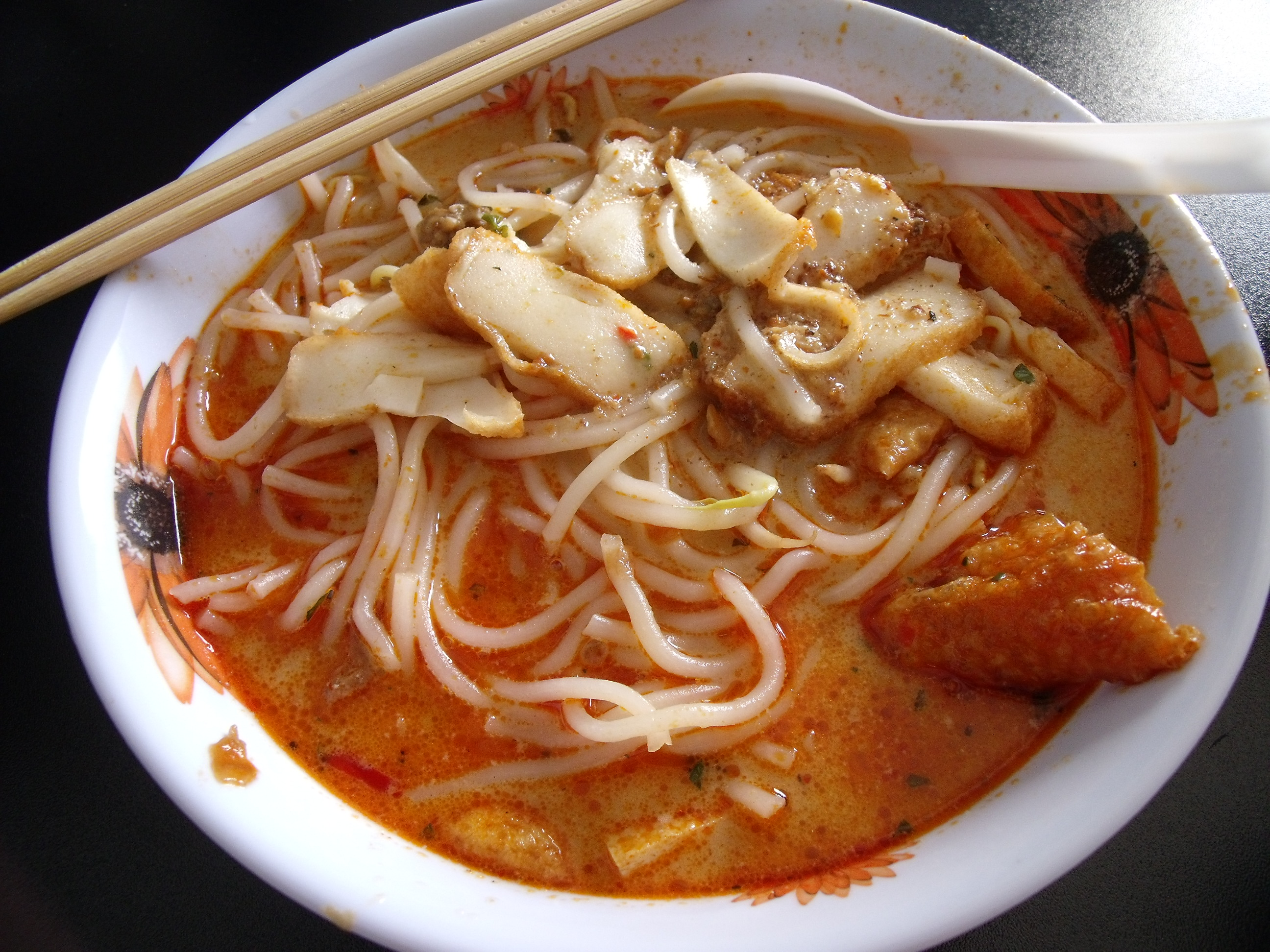 Laksa bought from Bukit Batok West, Singapore